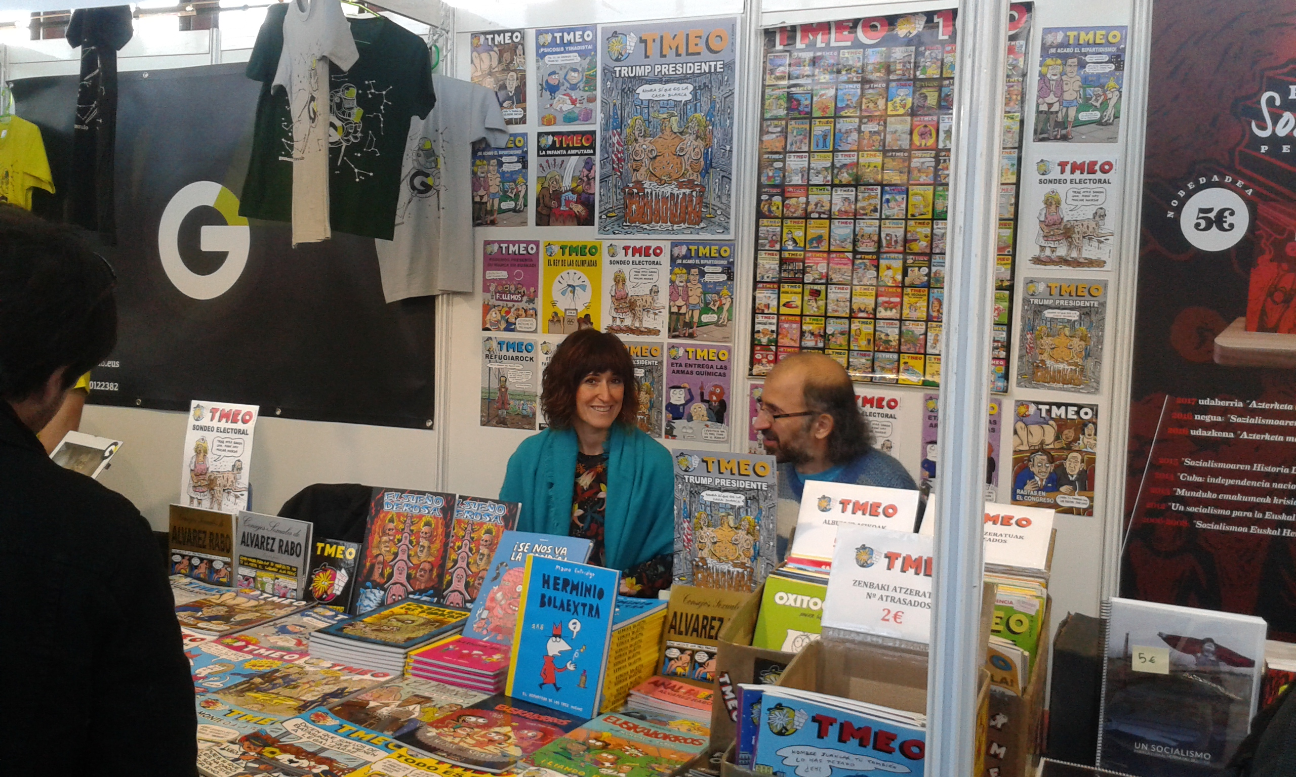 Stand of the TMEO satiric magazine at the Fair of Durango 2016